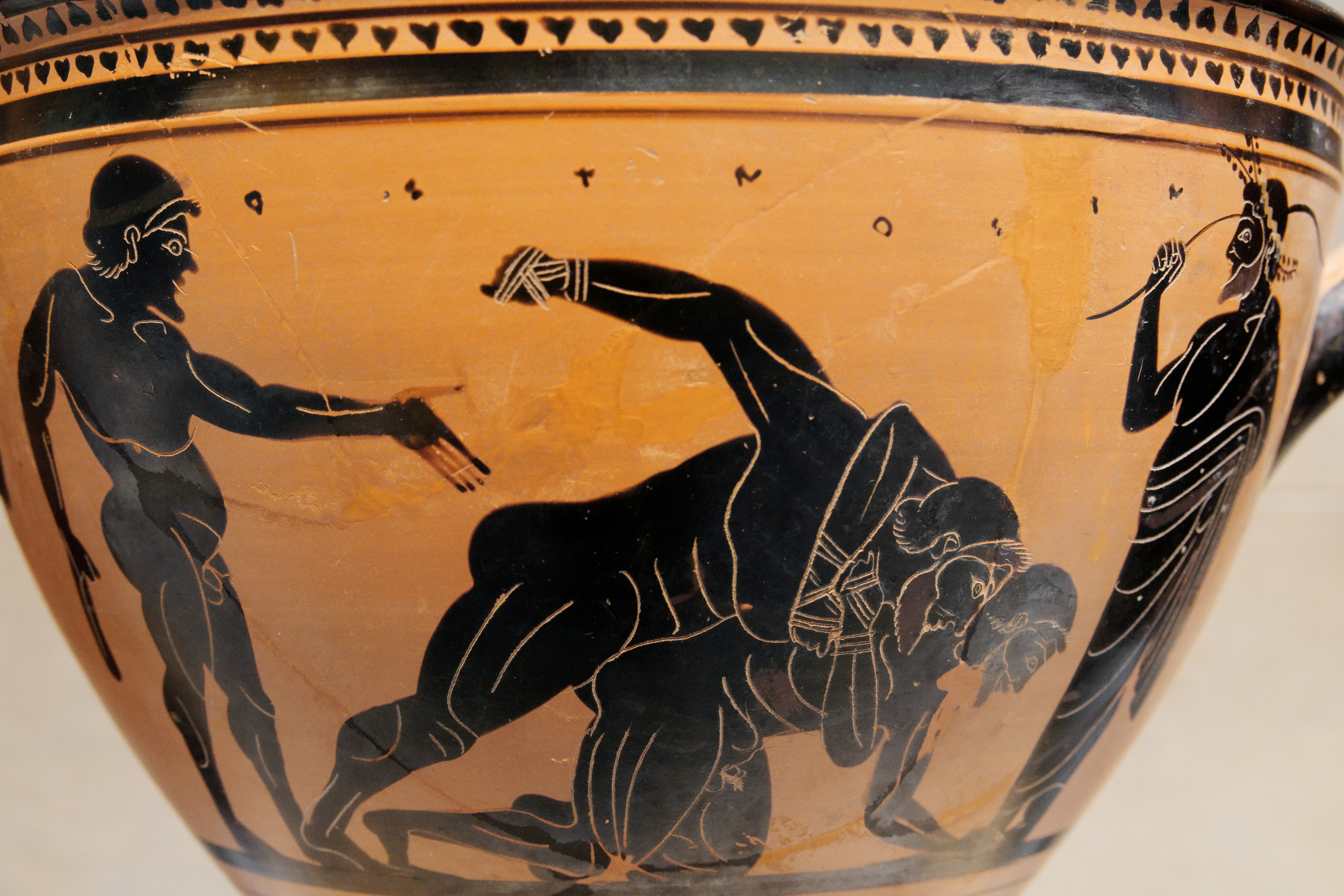 Pankratiasts fighting under the eyes of a trainer and an onlooker. Side A of an Attic black-figure skyphos.